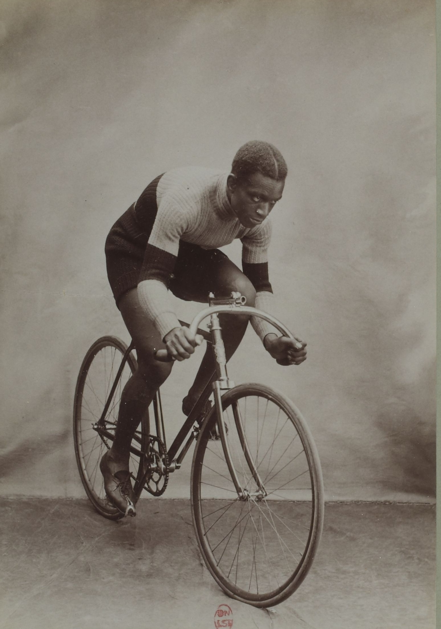 [Collection Jules Beau. Photographie sportive] : T. 26. Année 1904 / Jules Beau] Woody Headspeth, US-amerikanischer Radsportler